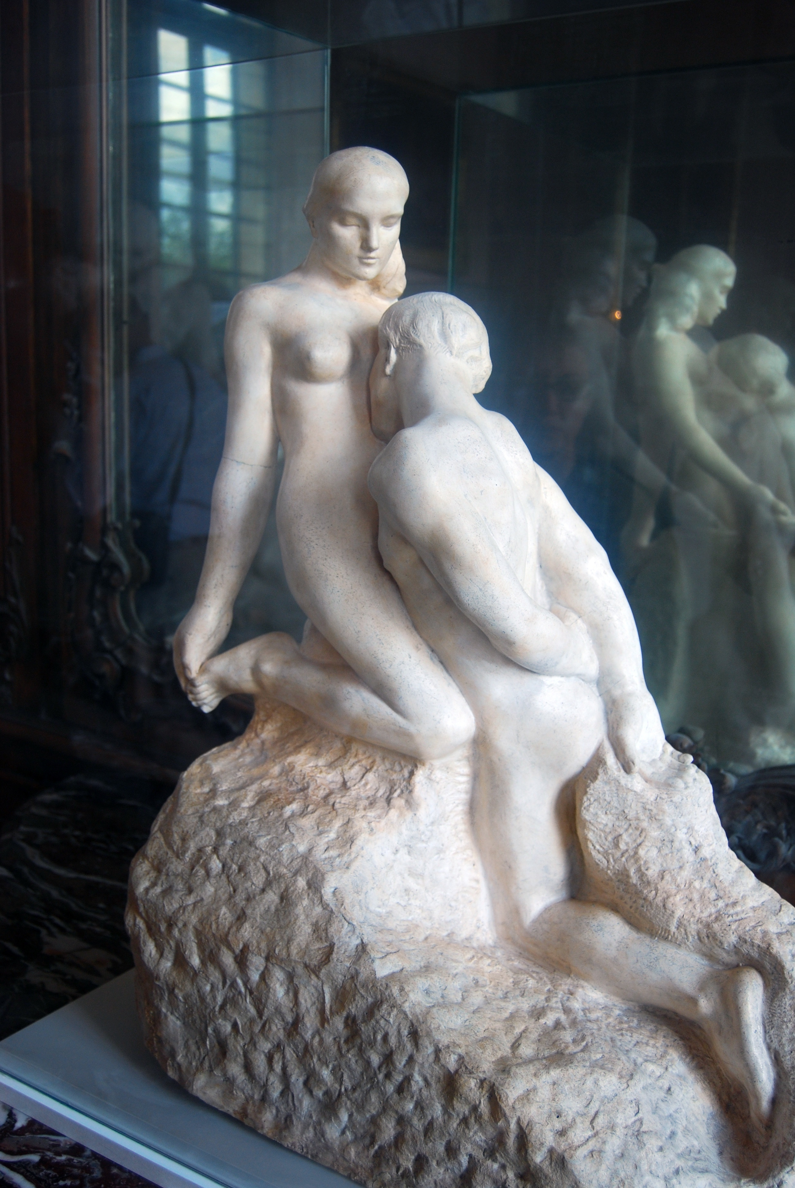 Marble sculpture - Rodin